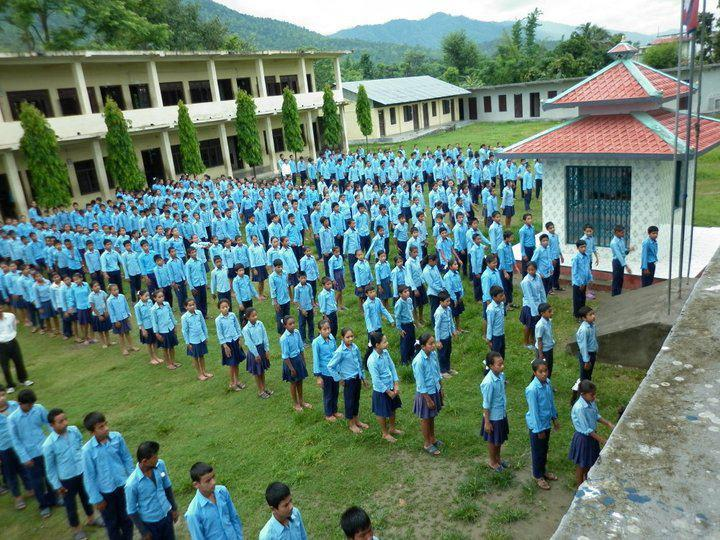 students at the assembly of morning pray,BuddhaShanti Higher Secondary School,Piple - 7,Chitwan.